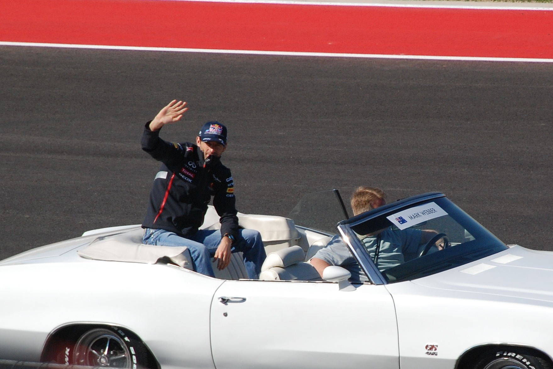 Mark Webber, United States Grand Prix, Austin 2012